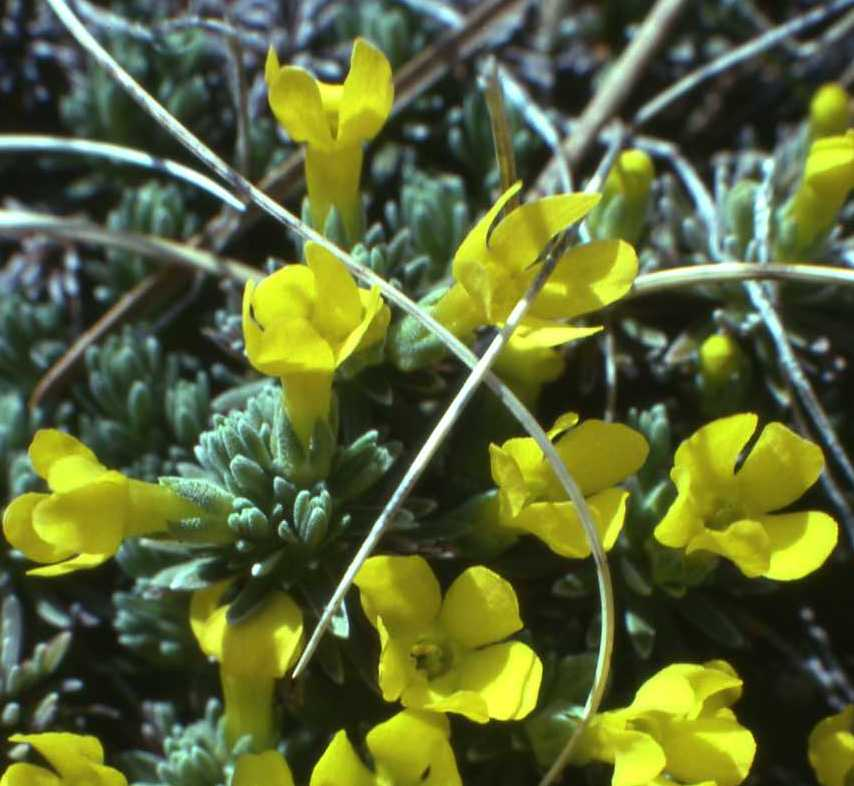 Androsace vitaliana